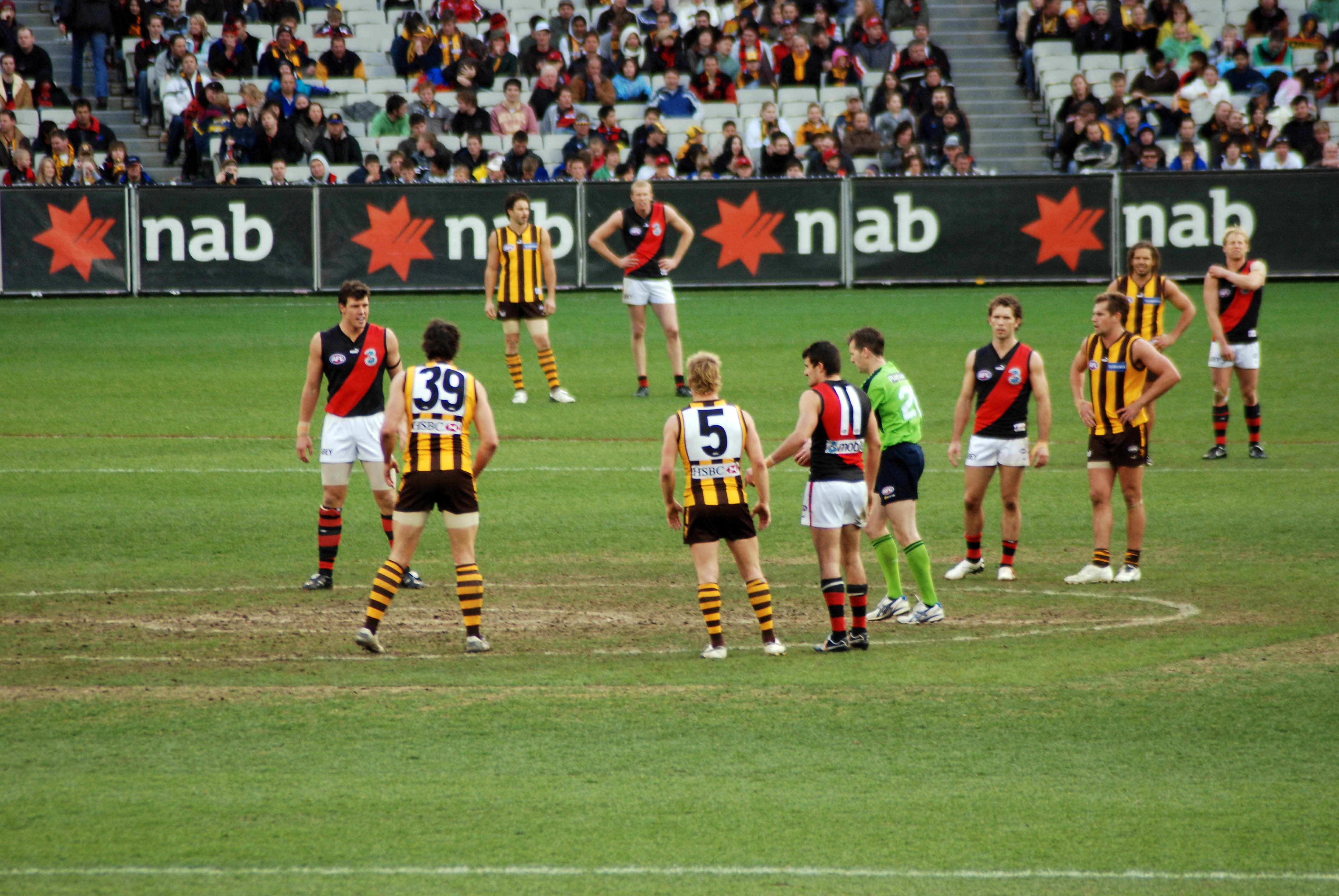 Before the bounce at the Melbourne Cricket Ground between the Hawthorn and Essendon Football Clubs.